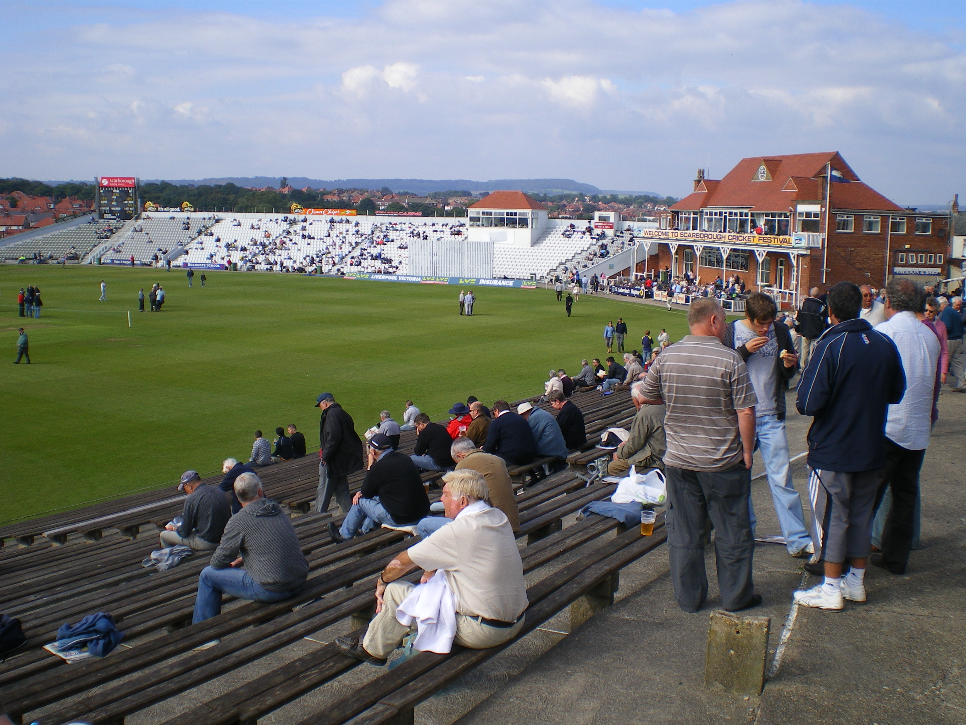 North Marine Road cricket ground, Scarborough